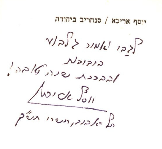 A sample of Yossef Arixa's handwriting, in a dedication to Amir Gilboa on the title page of Arixa's book סנחריב ביהודה.